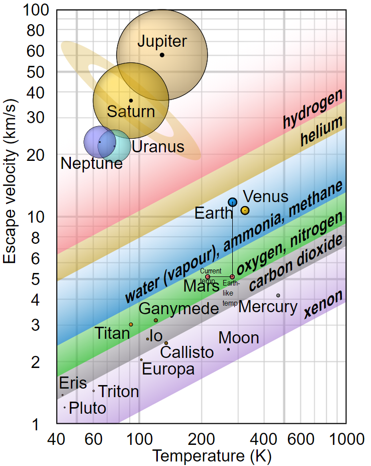 This is a modification of Solar system escape velocity vs surface temperature.svg It shows whereabouts on the diagram Mars would sit if it was at a similar (slightly cooler) temperature to Earth as it is thought to have been in the past (due to evidence of liquid water on the surface) and as terraforming proponents would like it to be in the future. It shows that at these temperatures oxygen and nitrogen would escape much faster than they do today.